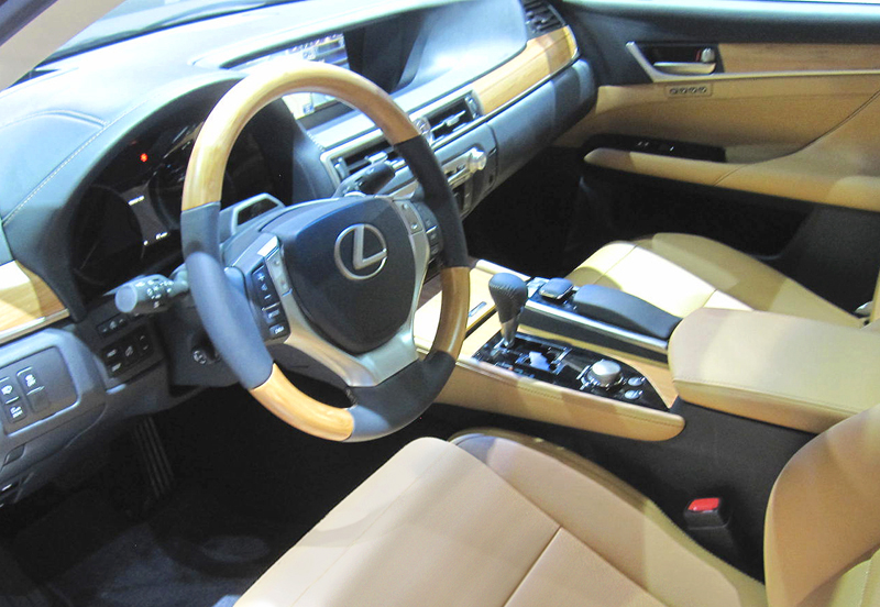 Lexus GS 450h fourth gen bamboo interior